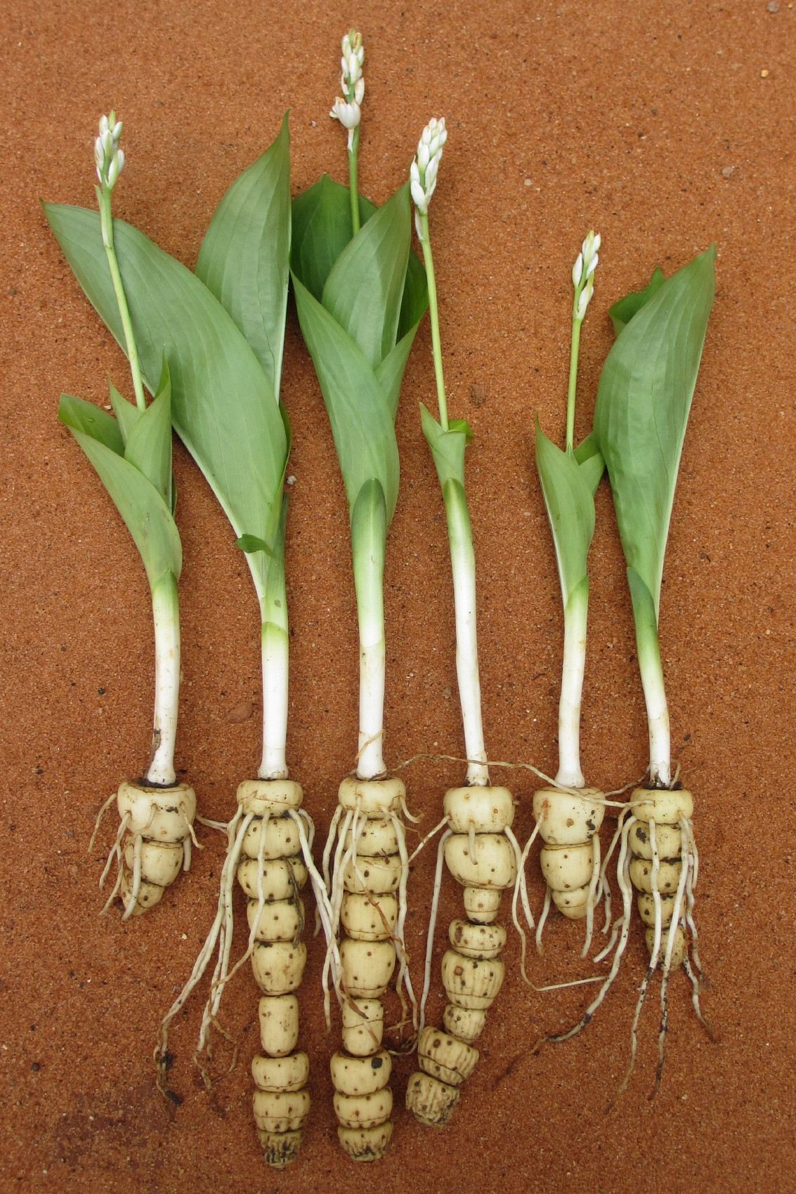 Uprooted flowering plants, Muepane, Pemba-Metuge District in Northern Mozambique. The poisonous corms are eaten after elaborate preparation. One of the most important wild foods of northern Mozambique. Local name in Macua language: "ikotcho". I think the series of corms in a row represent growth conditions of the past years (analogy of tree bark rings).